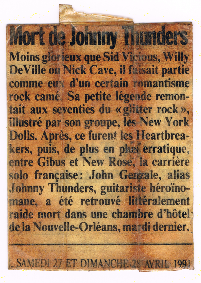 Johnny Thunders' obituary, in the french newspaper 'Le Monde', saturday, april 27, 1991